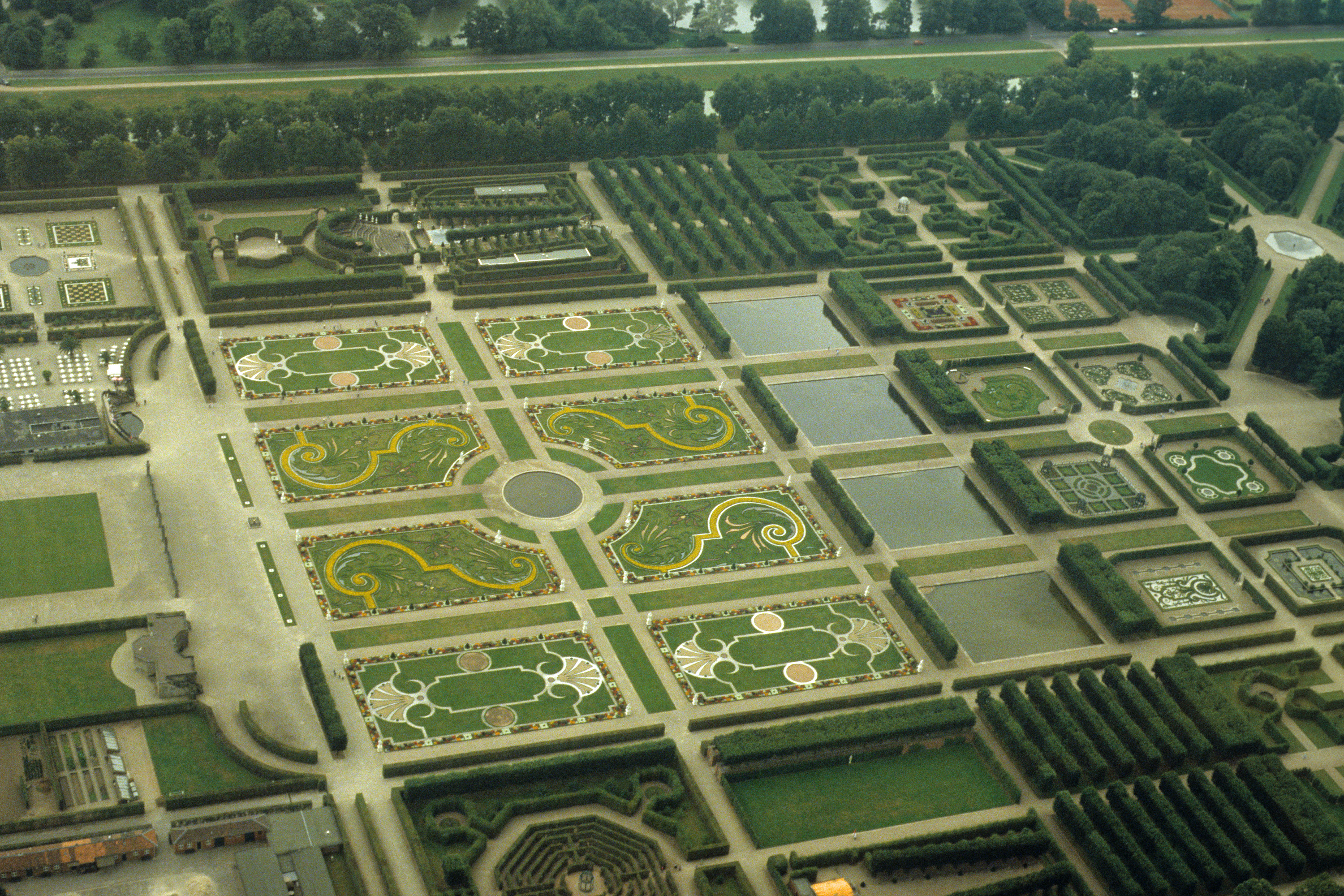 Aerial view Hannover Herrenhausen Gardens Great Garden